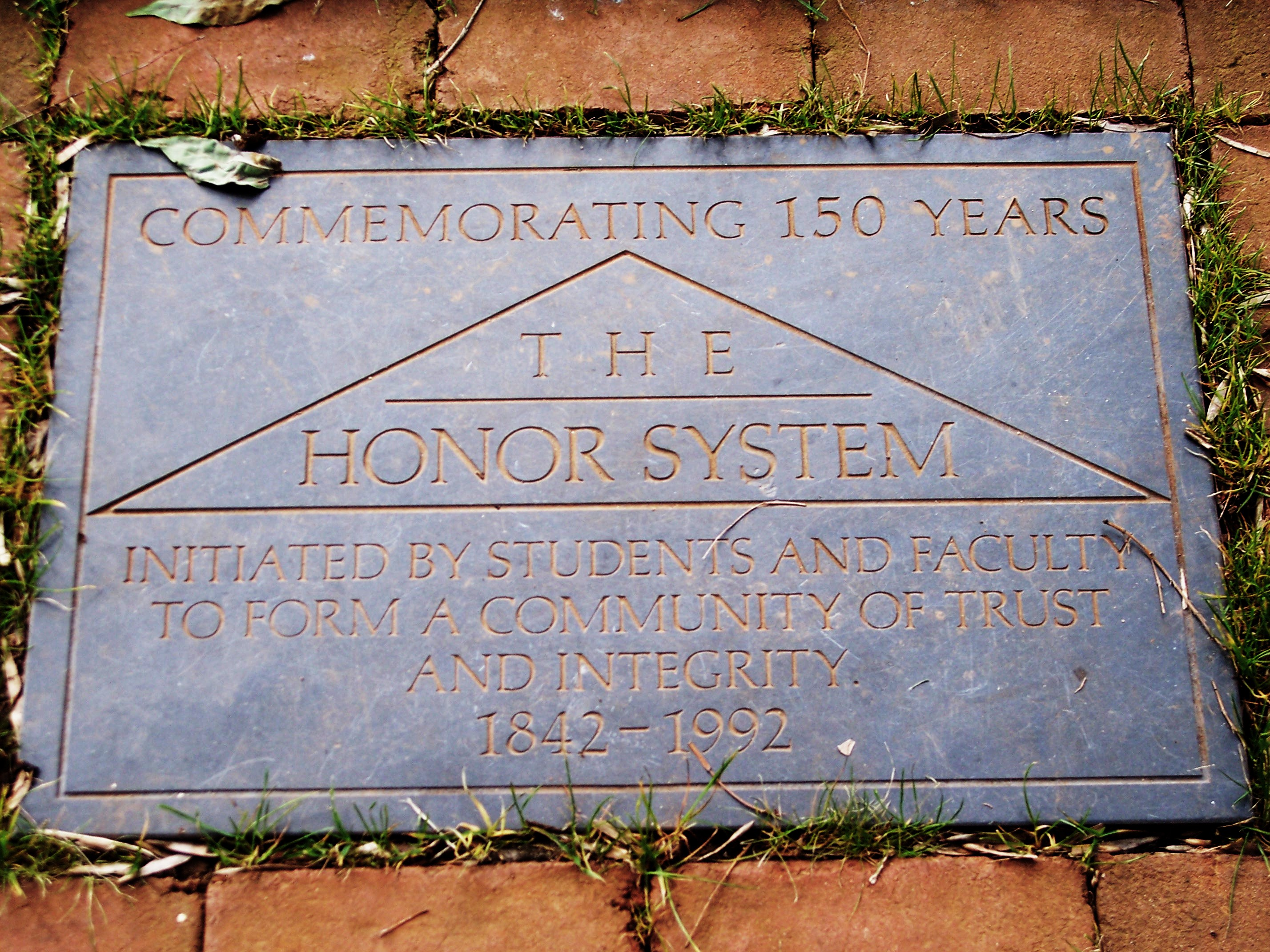 "Commemorating 150 years. The Honor System. Initiated by students and faculty to form a community of trust and integrity. 1842-1992" A plaque on the Lawn for the 150th anniversary of the honor system at the University of Virginia